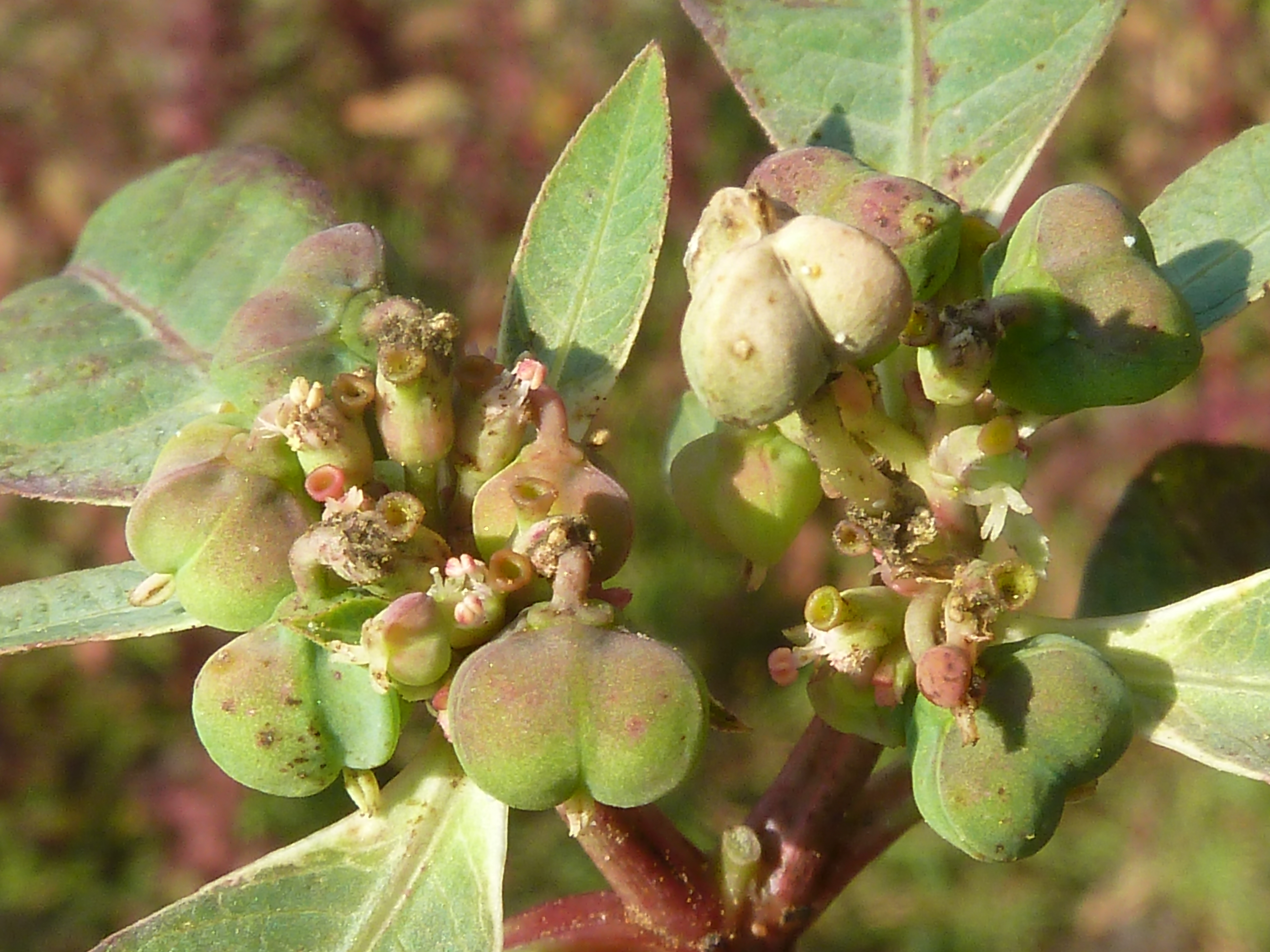 Fruit of Annual pointsettia in Serene Valley, Pretoria